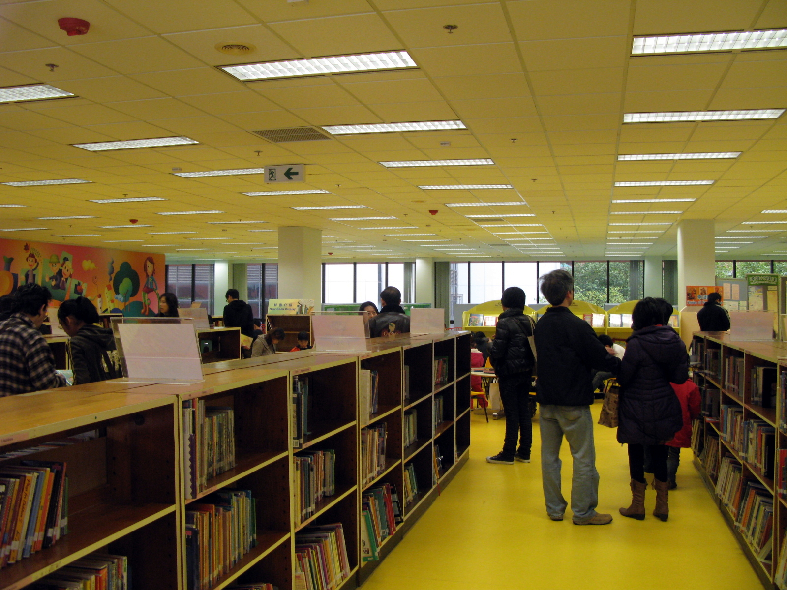 HK Shatin Library Children Library After renovation